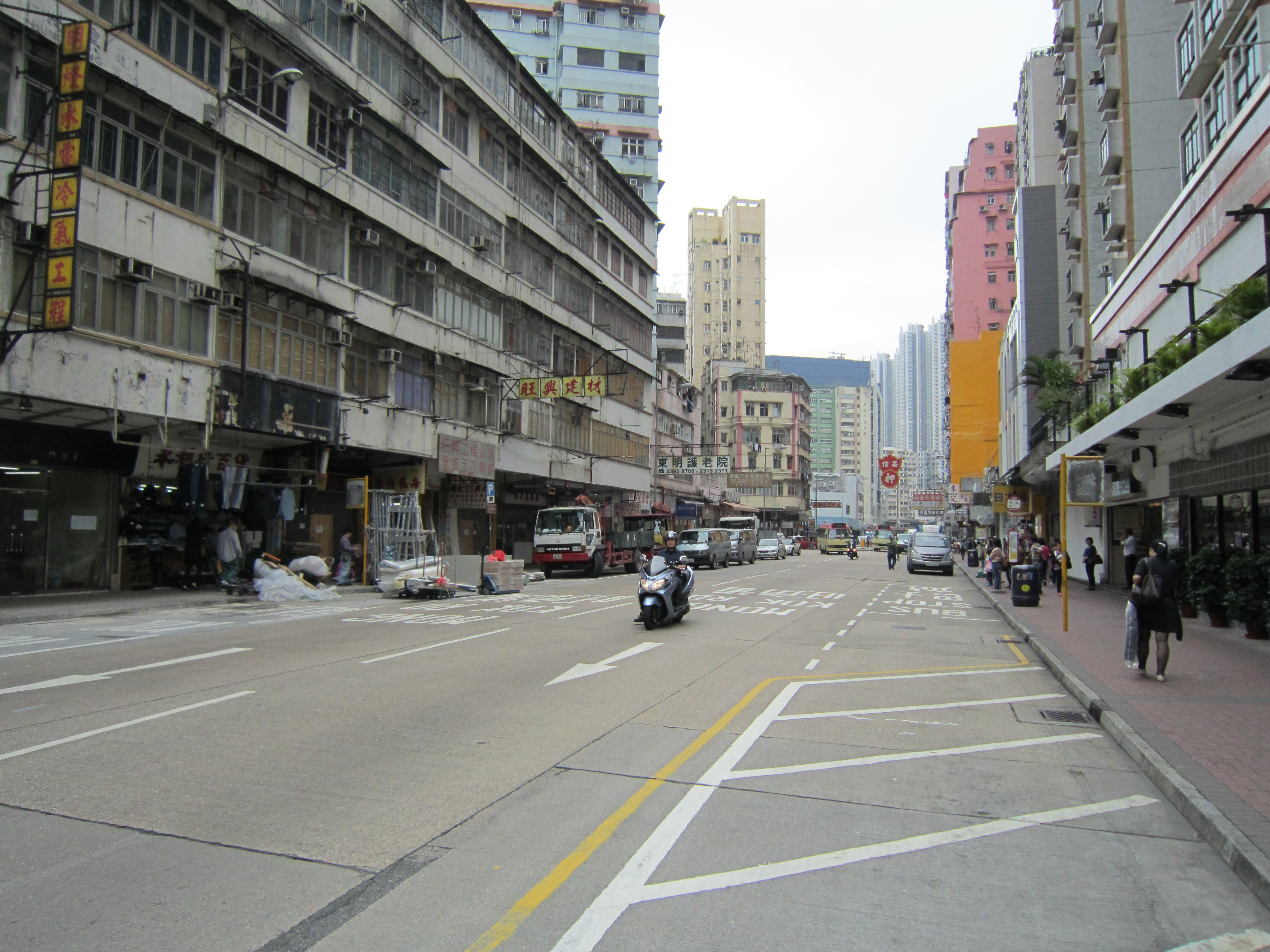 Fuk Tsuen Street viewing from Tong Mei Road